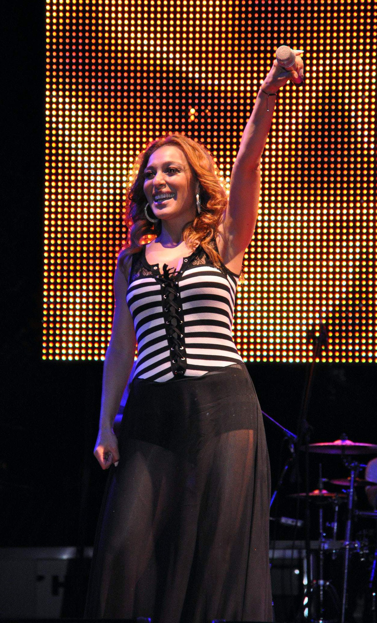 Ziynet Sali during a concert in Zonguldak.